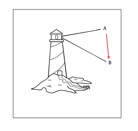 Figure 1. Diagram illustrating observed distance travelled by light (from point A to point B) as light source rotates.